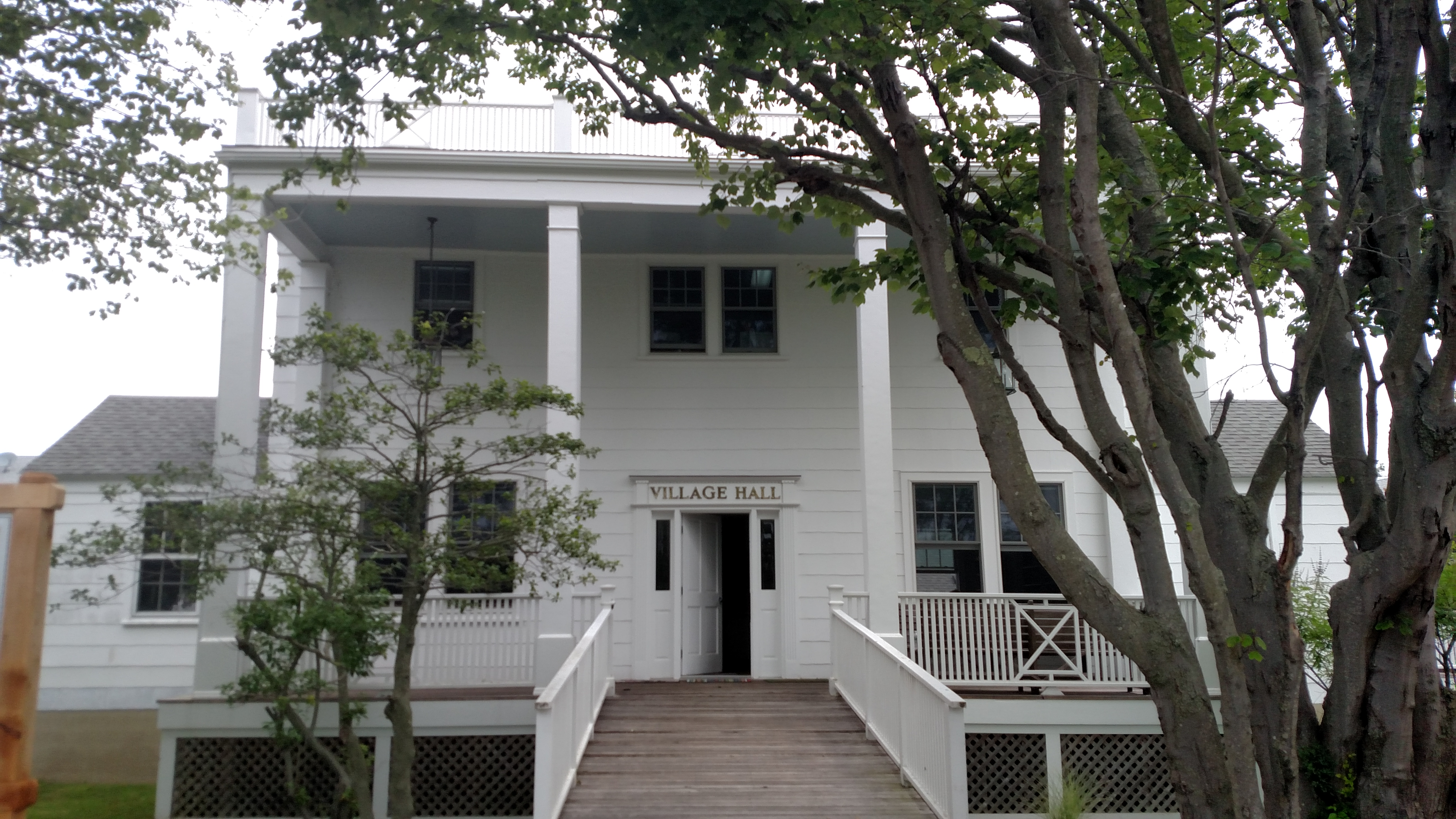 Photo from Saltaire, New York